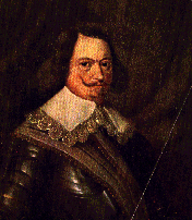 Jacob Kettler, 1642-1682 Duchy of Courland